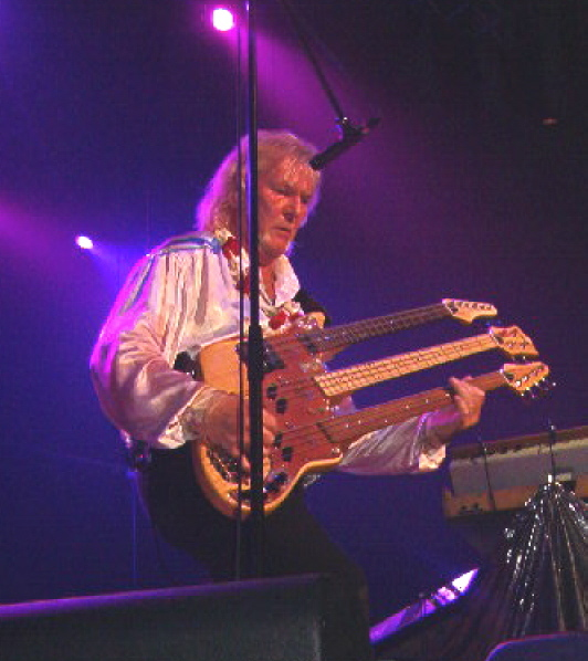 Chris Squire (Yes) Wal Triple-Neck Bass References Jeff Nolan (2013-04-03). "GALLERY: Hard Rock Collection’s Iconic Axes, Part 2". Premier Guitar. "Chris Squire’s Triple-Neck Wal Bass : ... Though most players wouldn’t even know how to tune the thing, Squire regularly wrestled the beast into artful submission. The middle neck is a standard fretted 4-string, the lower neck is fretless, and the top neck was originally intended to be like a Telecaster, but Chris strung it with three octave pairs. It’s currently on display at the Hard Rock Cafe in Bucharest, Romania."